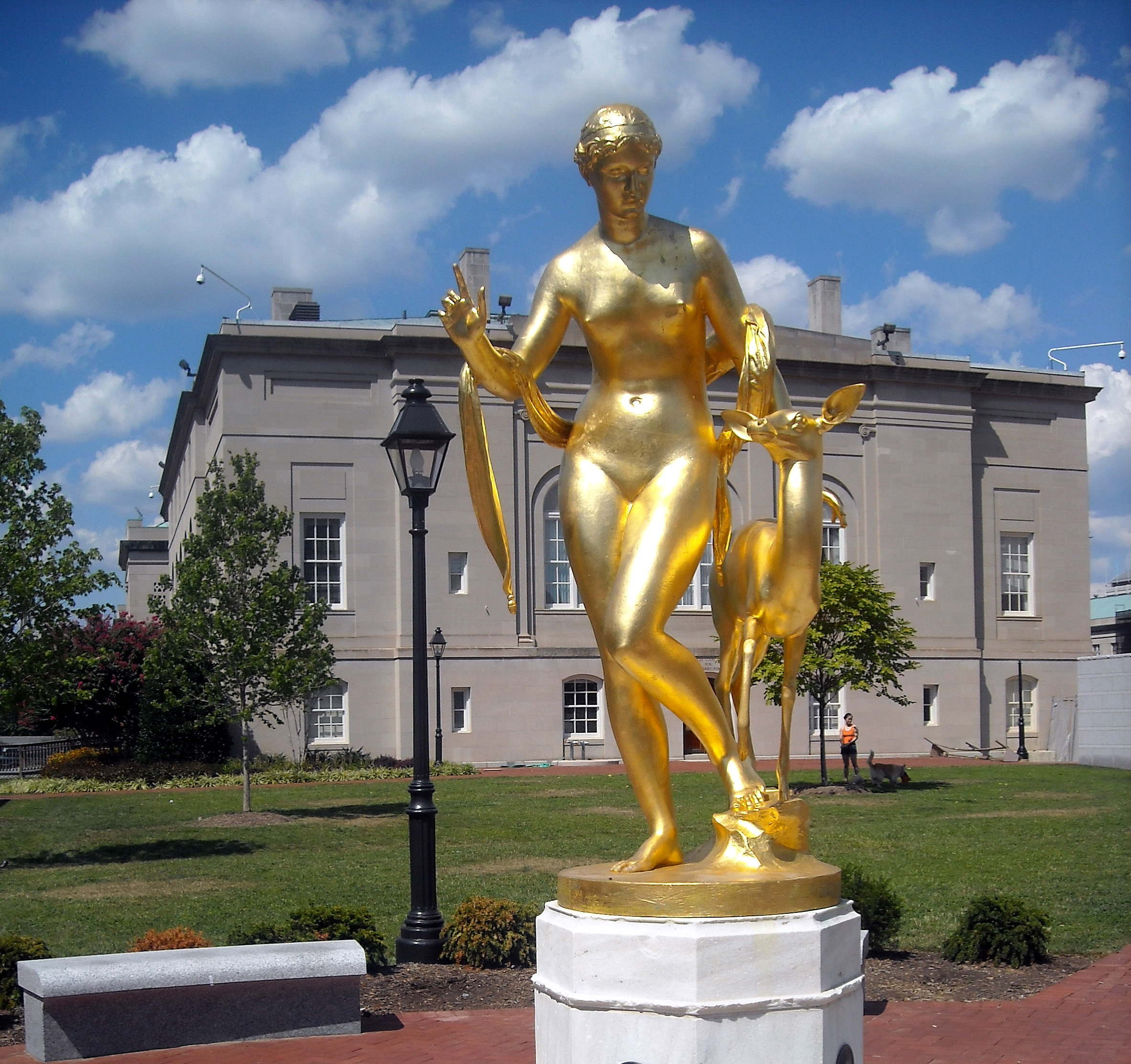 The Darlington Memorial Fountain: Nymph and Fawn (C. Paul Jennewein, 1922) is a gilded bronze sculpture atop a small fountain in the Judiciary Square neighborhood of Washington, D.C.